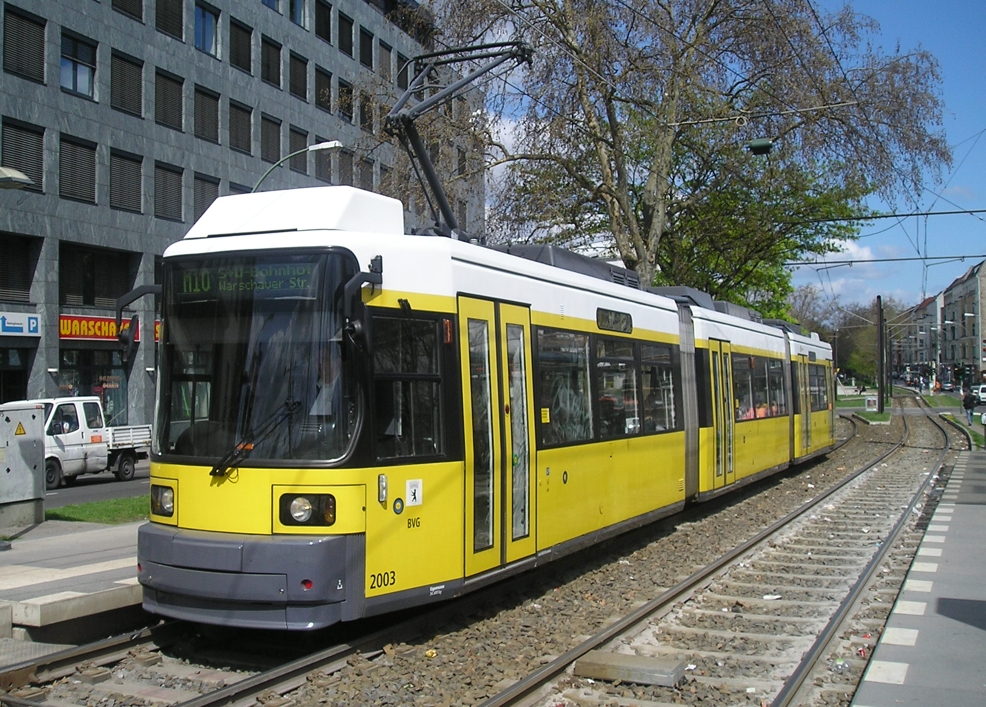 BVG line M10 on Warschauer Straße at Bahnhof Berlin Warschauer Straße.